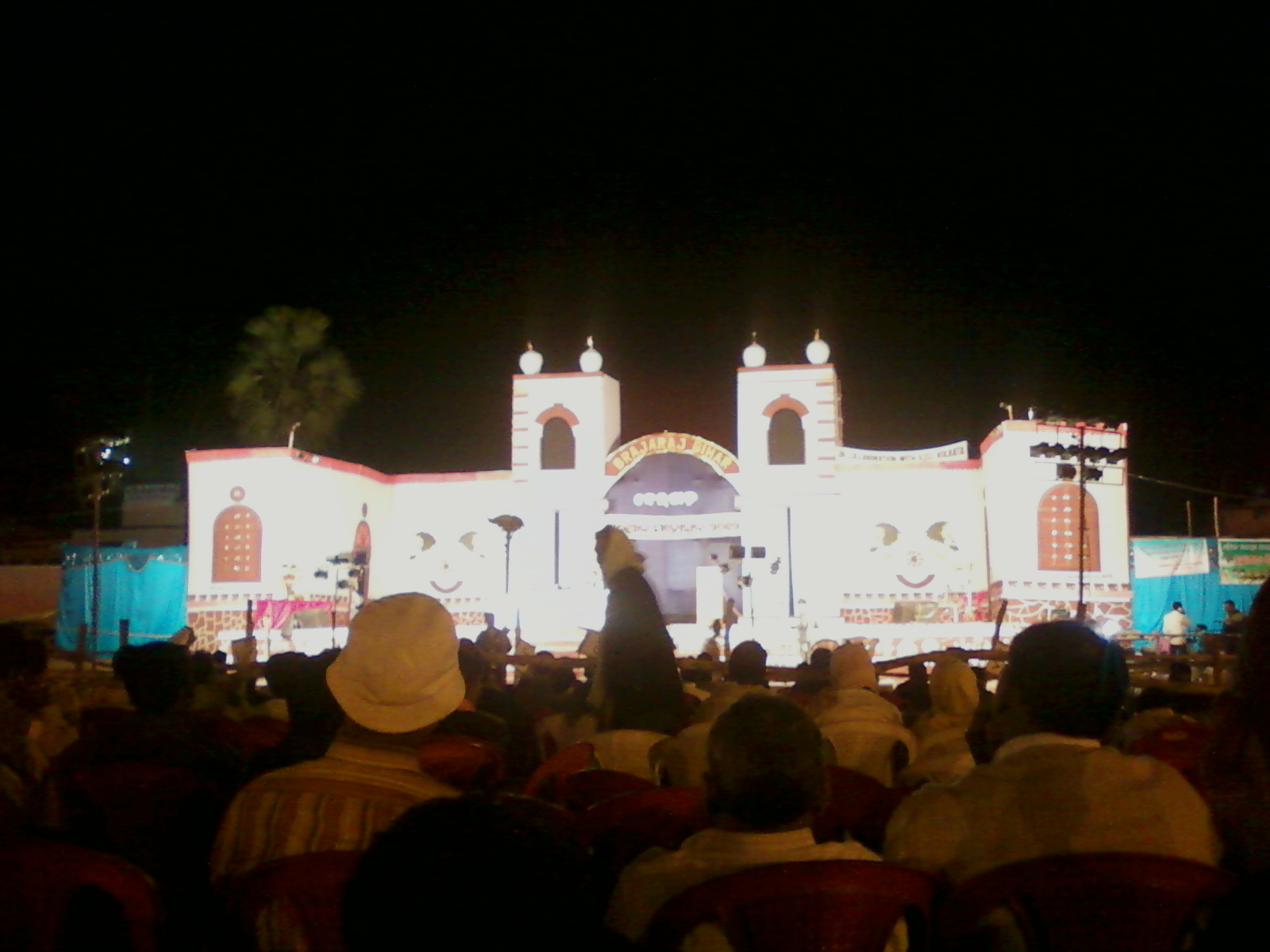 Historical Khariar Mahotsav